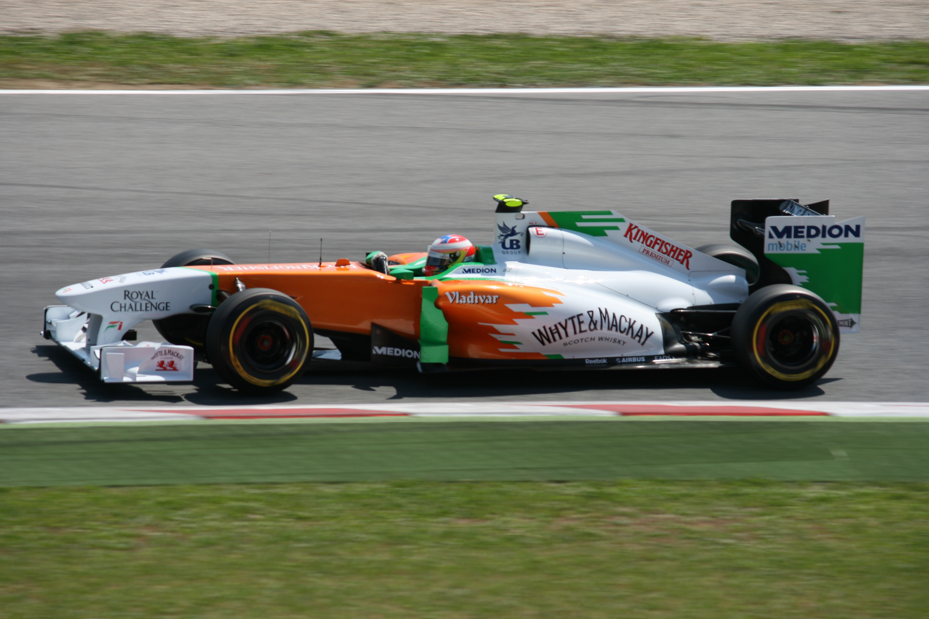 Force India VJM04 Paul di Resta 2011 Spanish Grand Prix